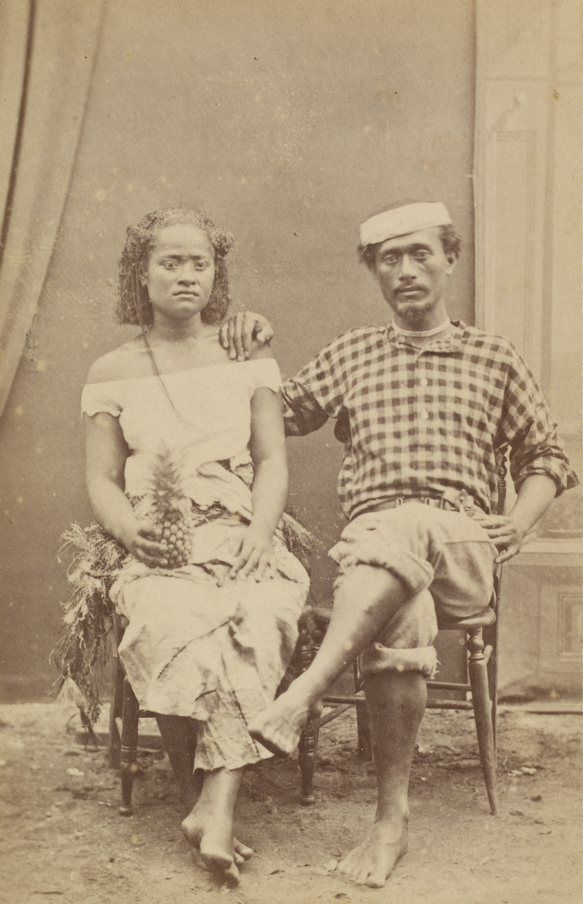 Ma'afu's son Charley (Sialeʻataongo) and his cousin Adi Tupoutu'a.